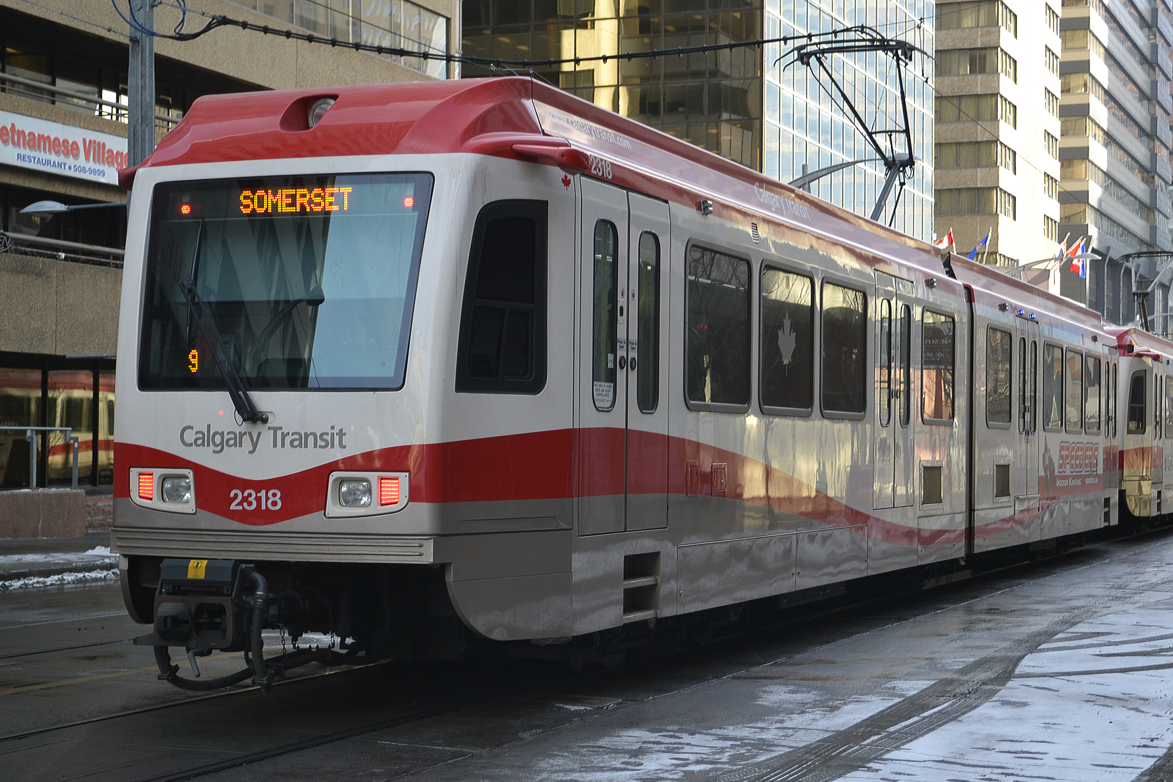 Calgary Transit SD-160NG (#2318)